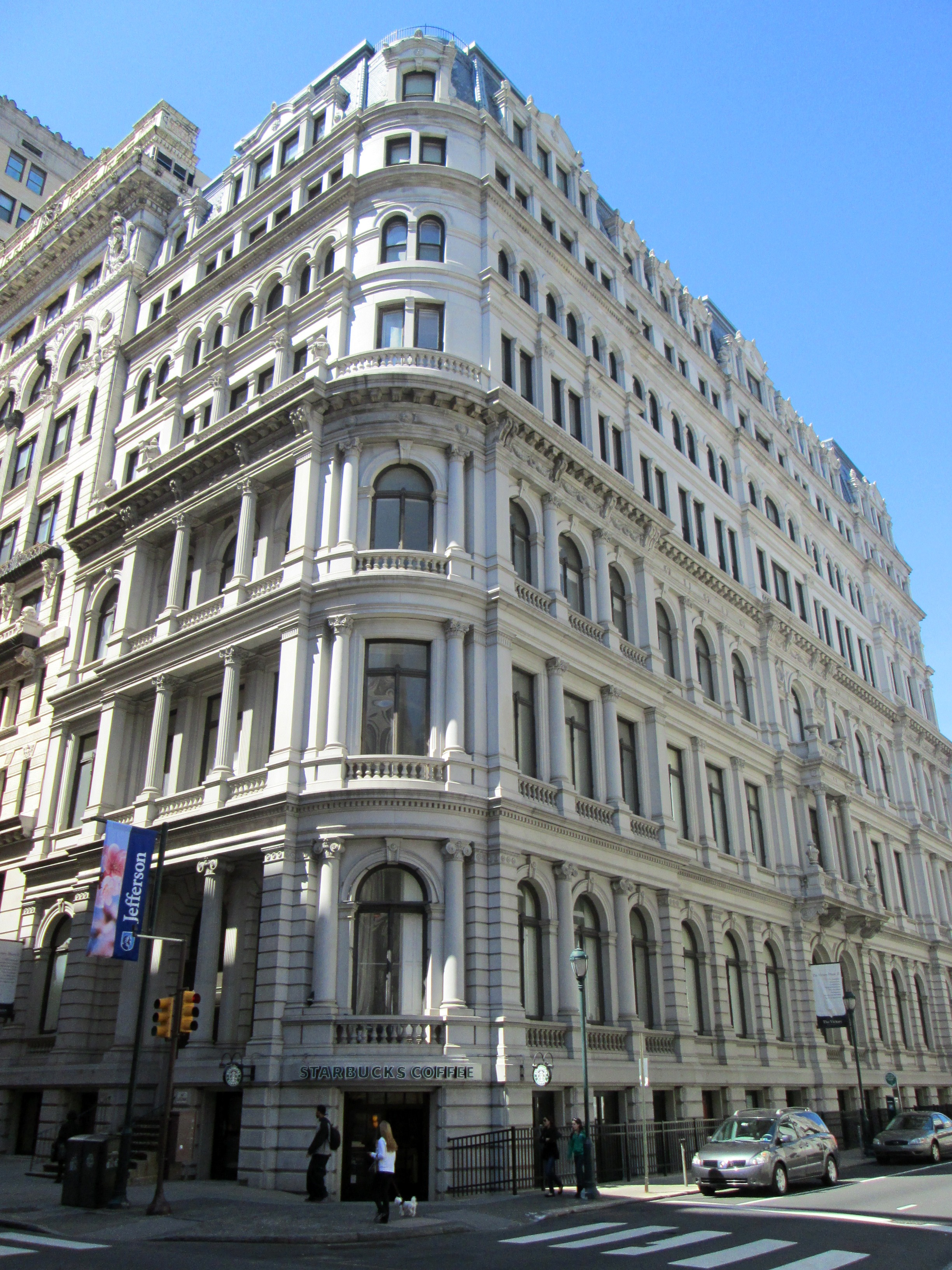 1001 Chestnut Street at the corner of S. 10th Street in the Center City area of Philadelphia was built in 1873 for the New York Mutual Insurance Company, and was designed by Henry Fernbach. Three floors were added in 1890, designed by Philip Roos, and an addition on 10th Street was built in 1902. The building is the last remnant of a number of services for financial companies along Chestnut Street. (Source: Architecture in Philadelphia: A Guide) It is now "The Victory" residential apartments.